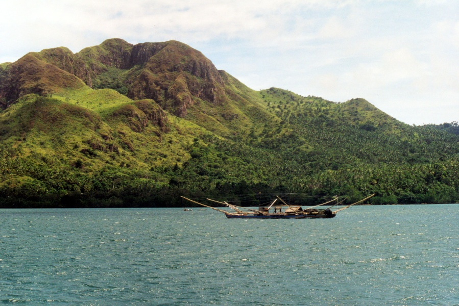 Coast headlands, flora, and fishing boat — near Basilan. In the Mindanao region of the southern Philippines.